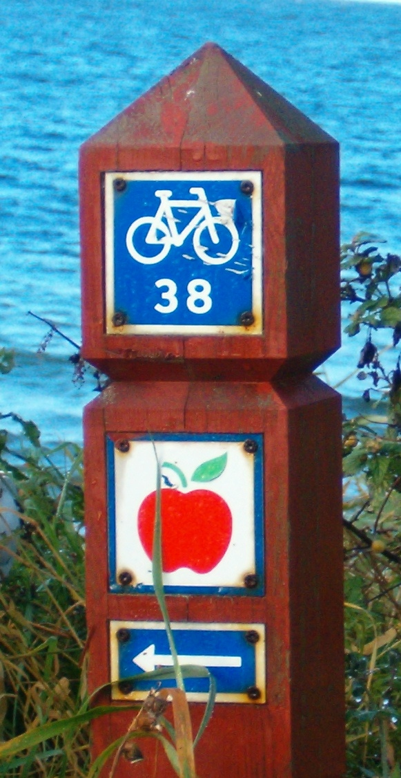 Cycling route sign of regional route 38 in Region Sjælland, Denmark